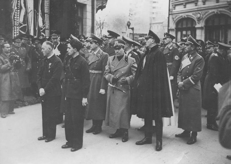 Prime Minister of Romania Ion Antonescu (first row, first from left) and chief of Legionnaires Horia Sima (next to the Prime Minister) in mourning for Corneliu Codreanu and his companions. On the second row Gauleiter Ernst Wilhelm Bohle (third from right) and the German Ambassador in Romania Wilhelm Fabricius (first from left, second row).